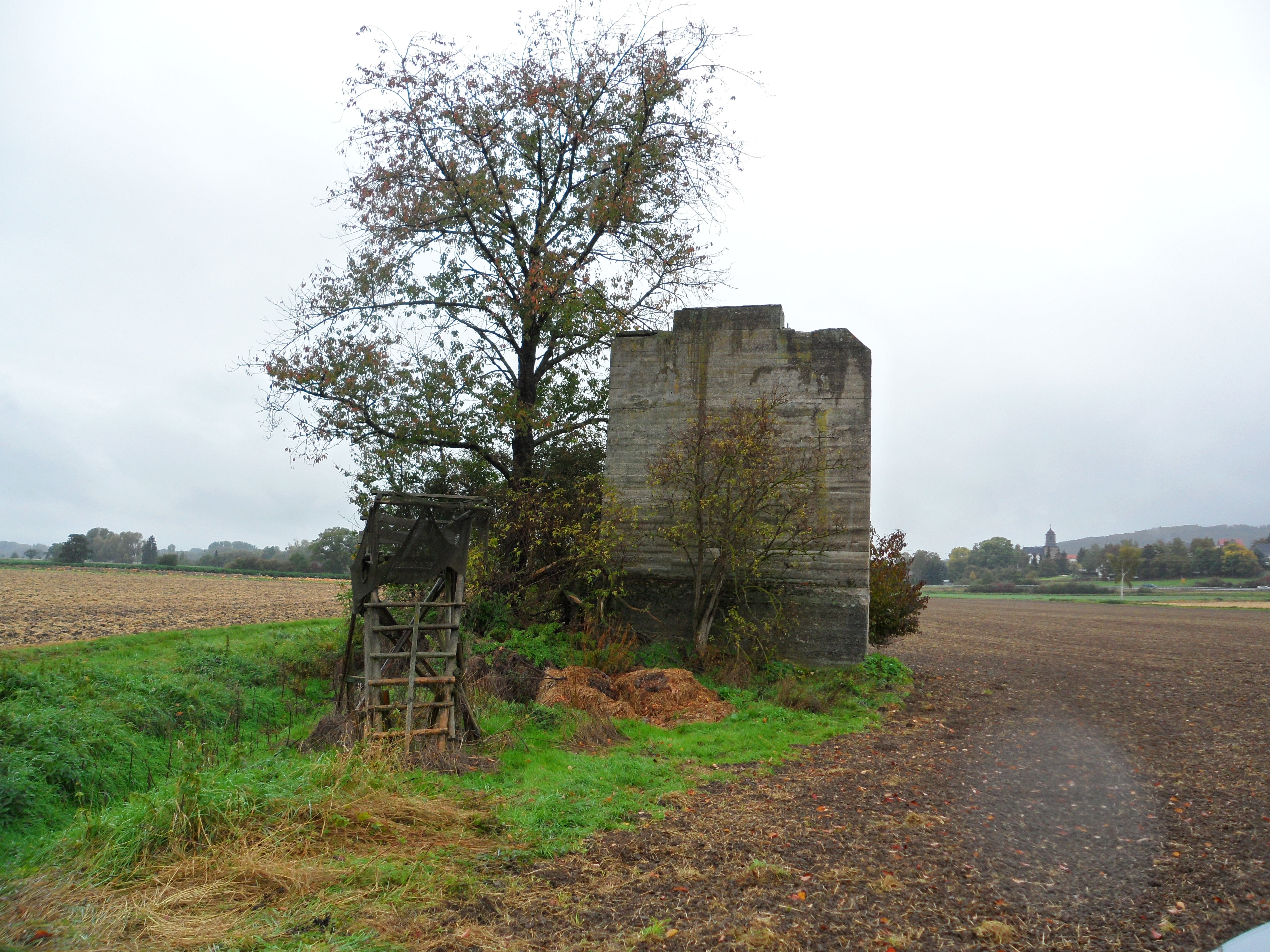 Remains of a ropeway support pillar of the iron ore mine at Mardorf